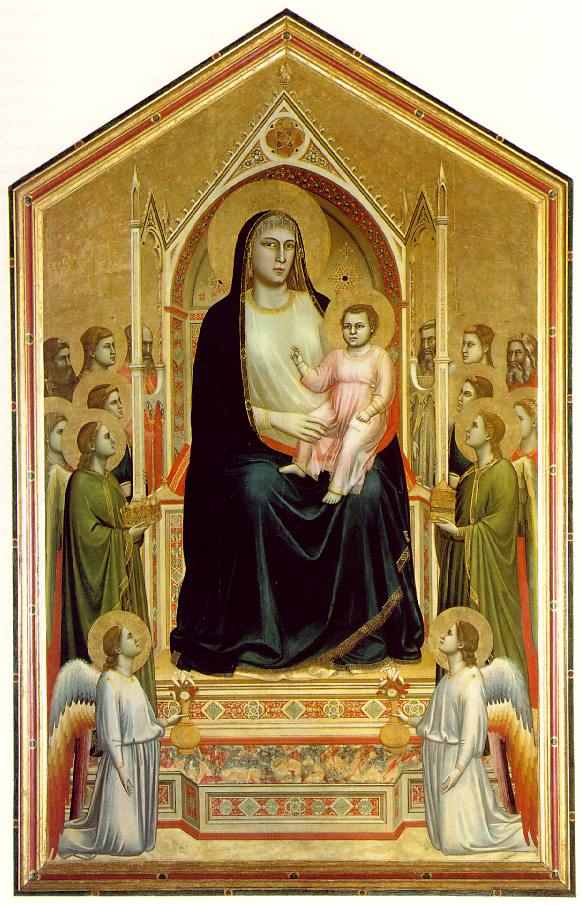 Category:Blessed Virgin Mary Image:Giotto Madonna In Glory Tempera on Panel 1305-10 582px.jpg